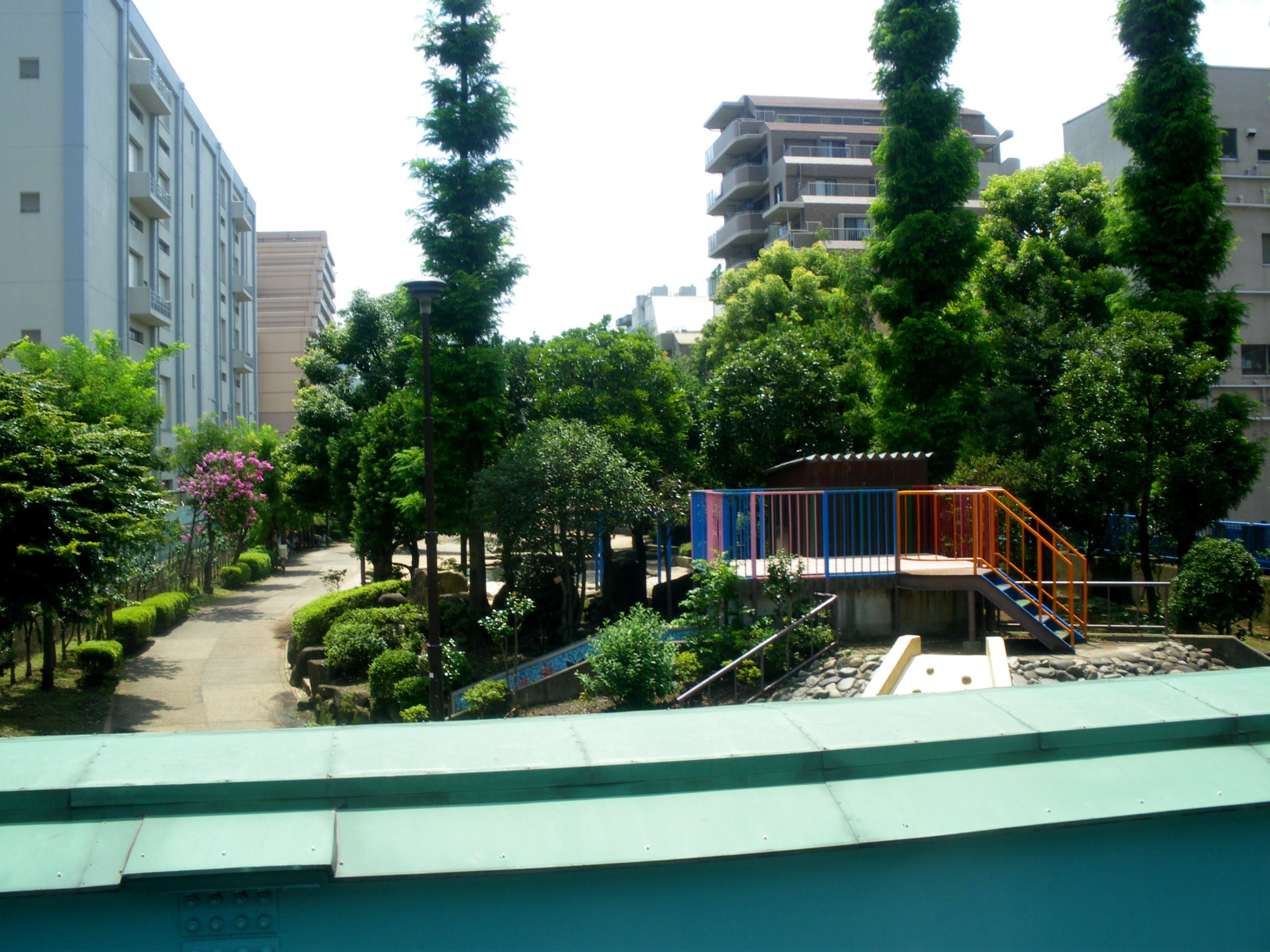 Ooyokogawa shinsui park seen from Hirakawabashi bridge(Sumida,Tokyo)